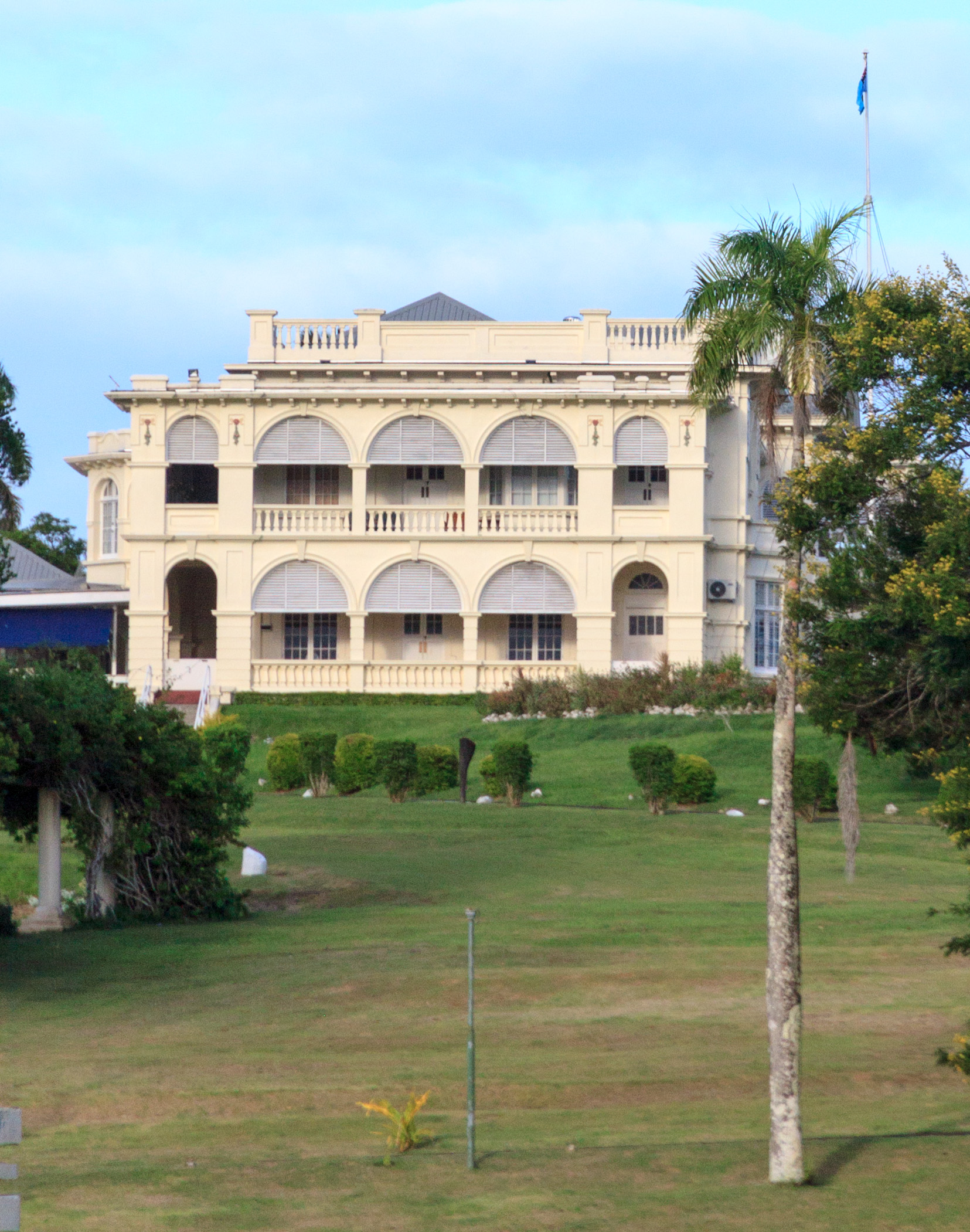 Presidential Pallace (Suva, Fiji)